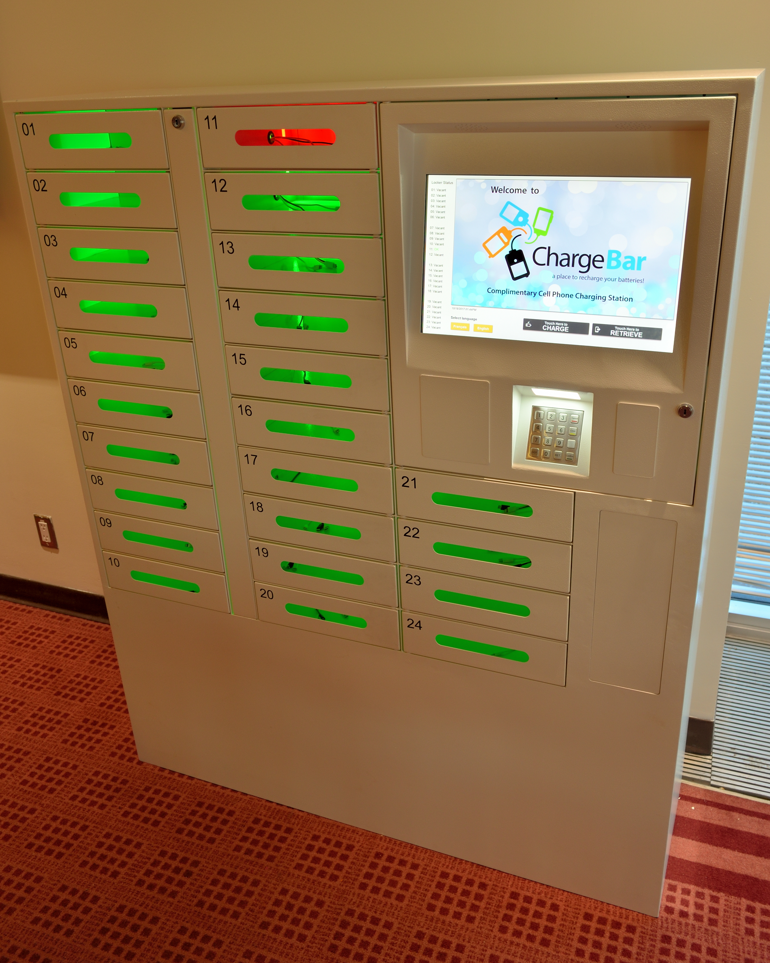 Cell phone charging station